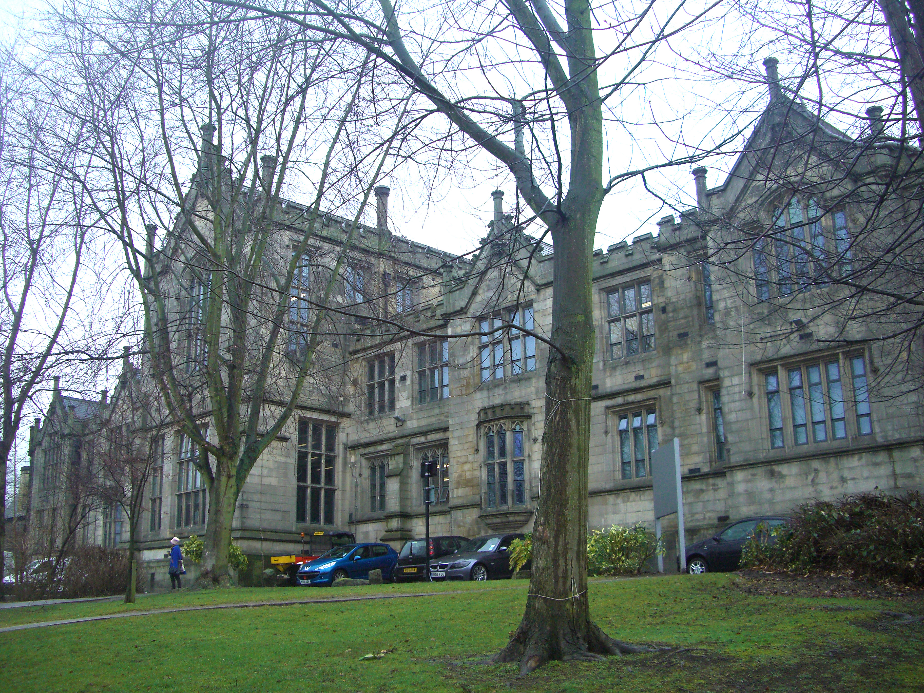 The main building of the Sheffield Hallam University Collegiate Crescent Campus in Sheffield, England. A Grade II listed buiding.